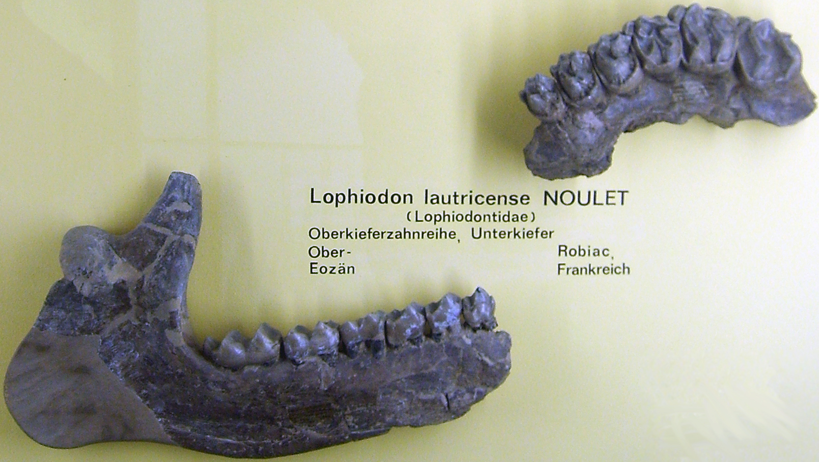 Lophiodon lautricense lower jaw and upper jaw fragment at the Museum für Naturkunde, Berlin.